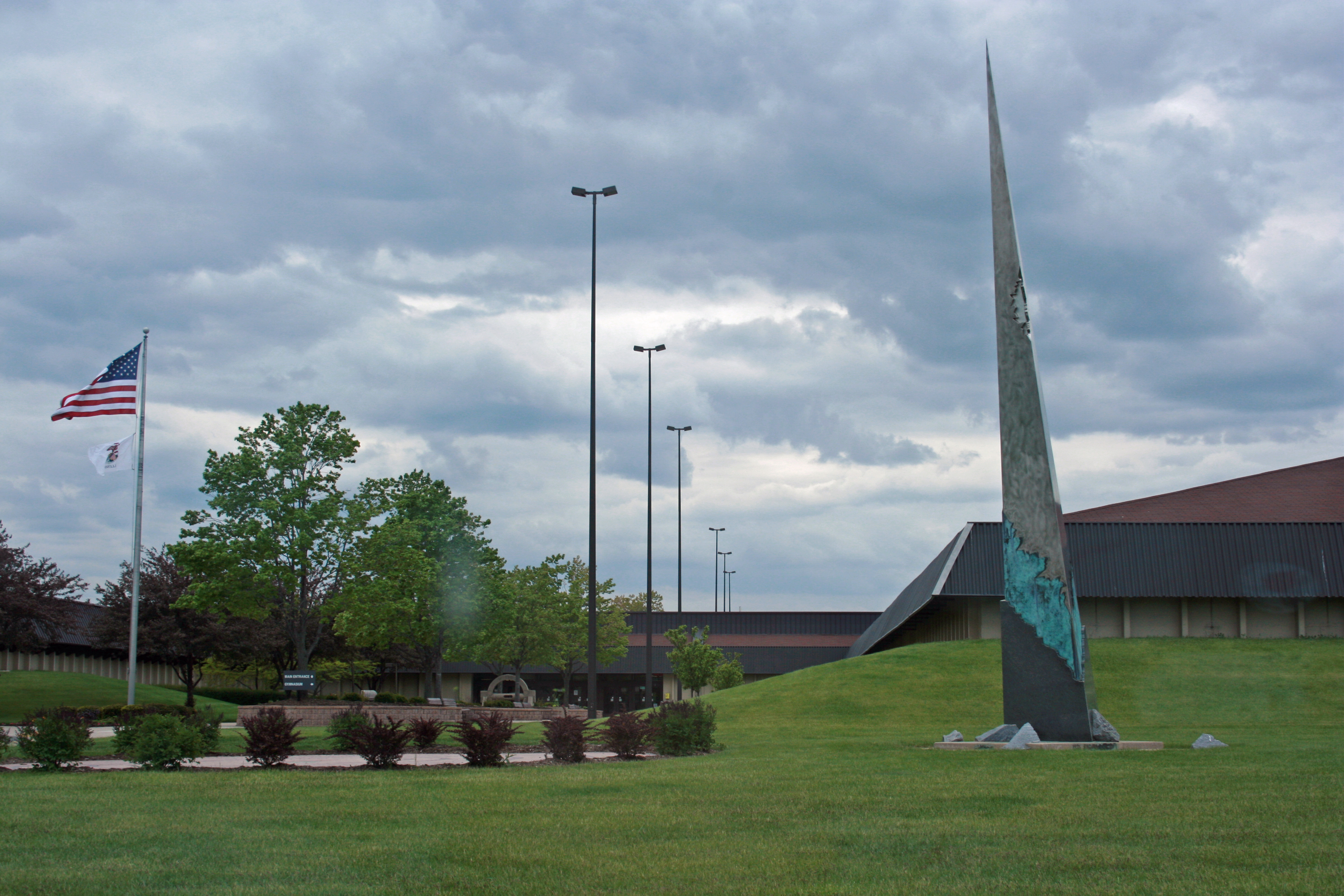 Illinois Mathematics and Science Academy front enterance